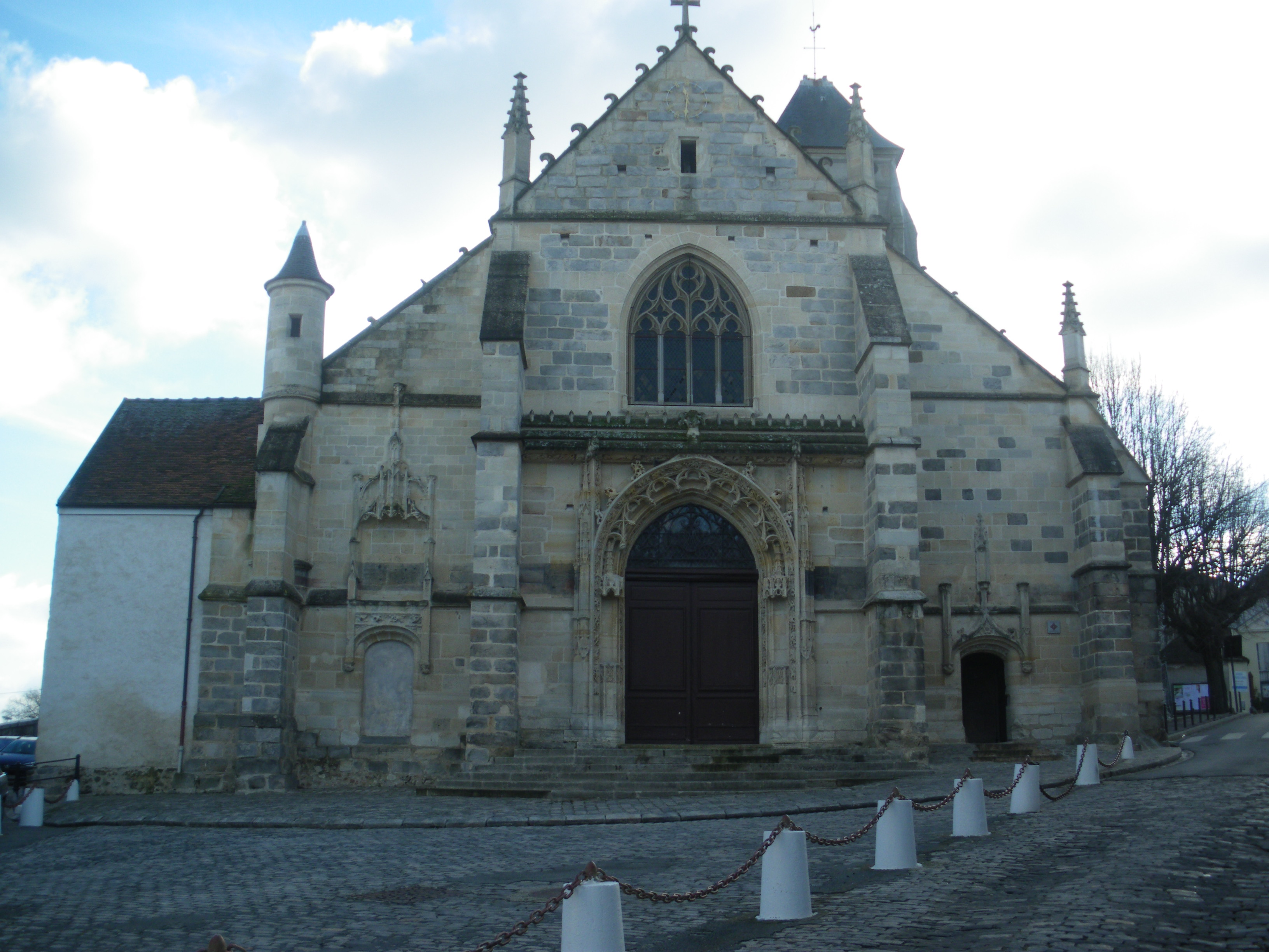 Church of Longjumeau, Essonne, France